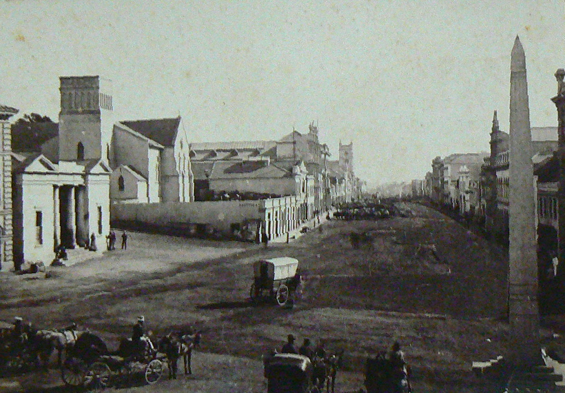 St Mary’s Church, St Marys Terrace, Central, Port Elizabeth is on the top left, behind the old Commercial Hall which stood on the land currently occupied by the Main Library. This media shows a South African Protected Site with SAHRA file reference 000000000000000000000000.